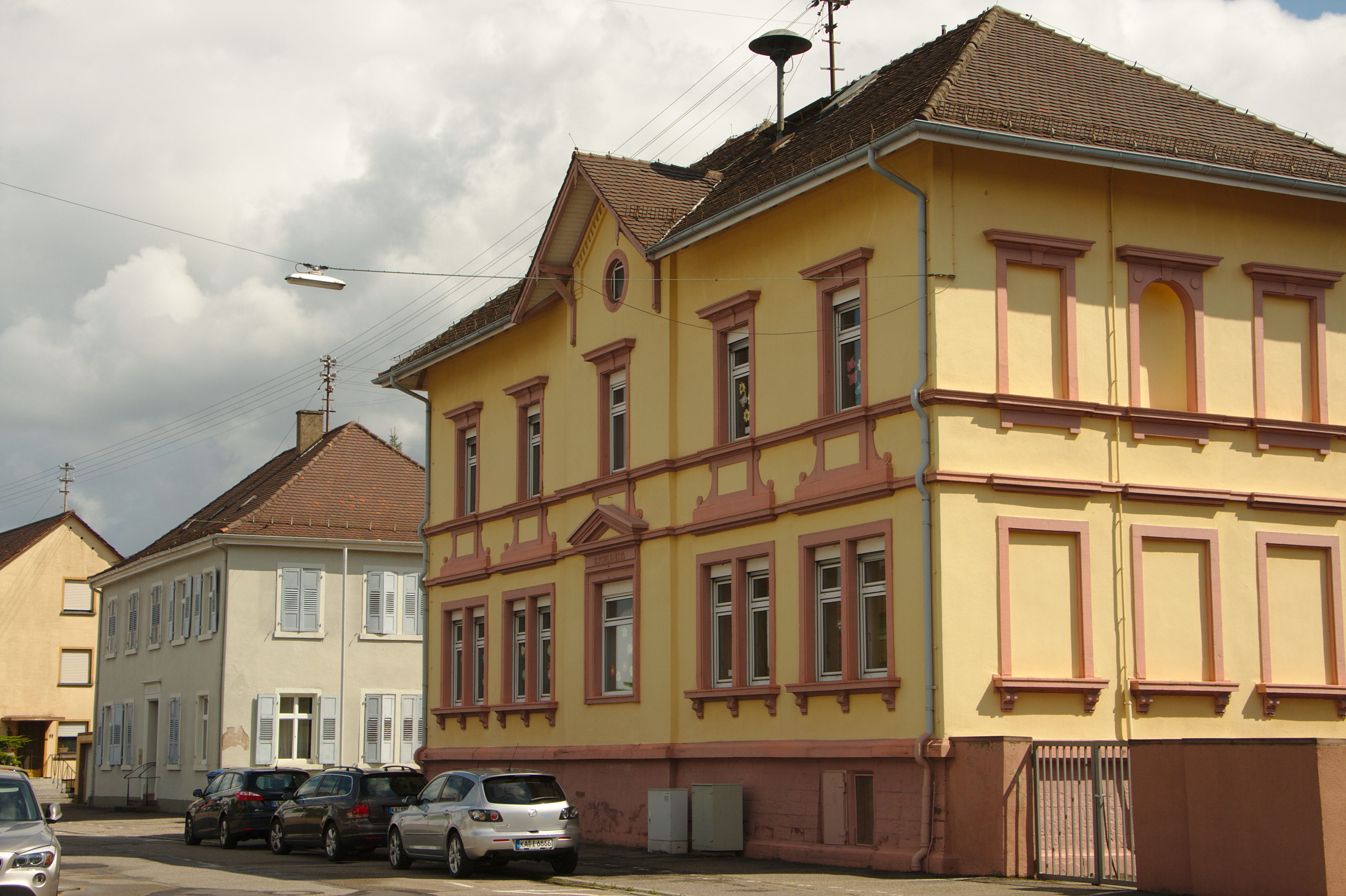 The Old (left) and the Middle Schoolhouse (right) in Karlsruhe-Hagsfeld, Germany